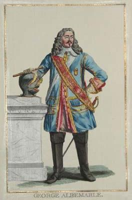 George Albemarle, General Anglois. d'Apres Barlow undated copper engraving with hand colour, published at Paris by Duflos le Jeune, rue St. Victor (size 278 x 168 mm): portrait of General George Monck, 1st Duke of Albemarle (1608–1670)